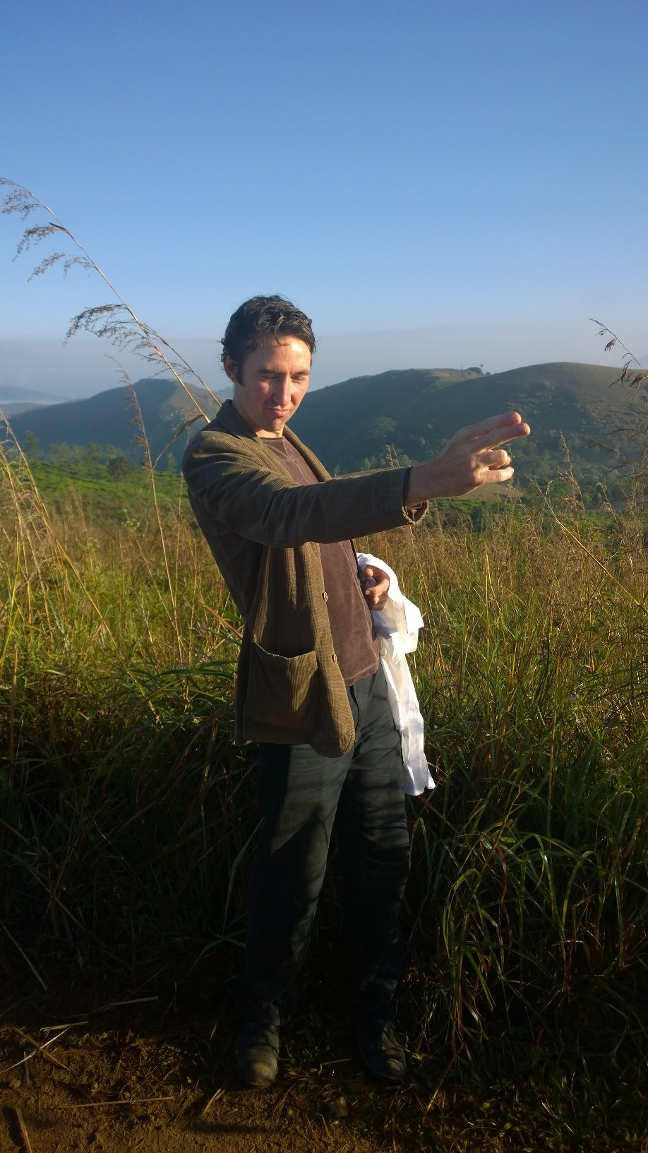 Johan Syrén